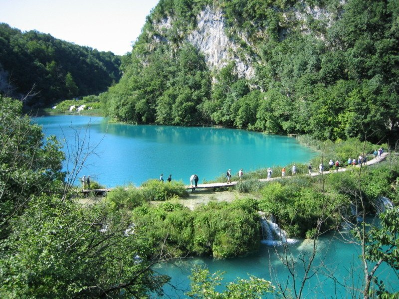 Plitvice nationalpark summer 2005.